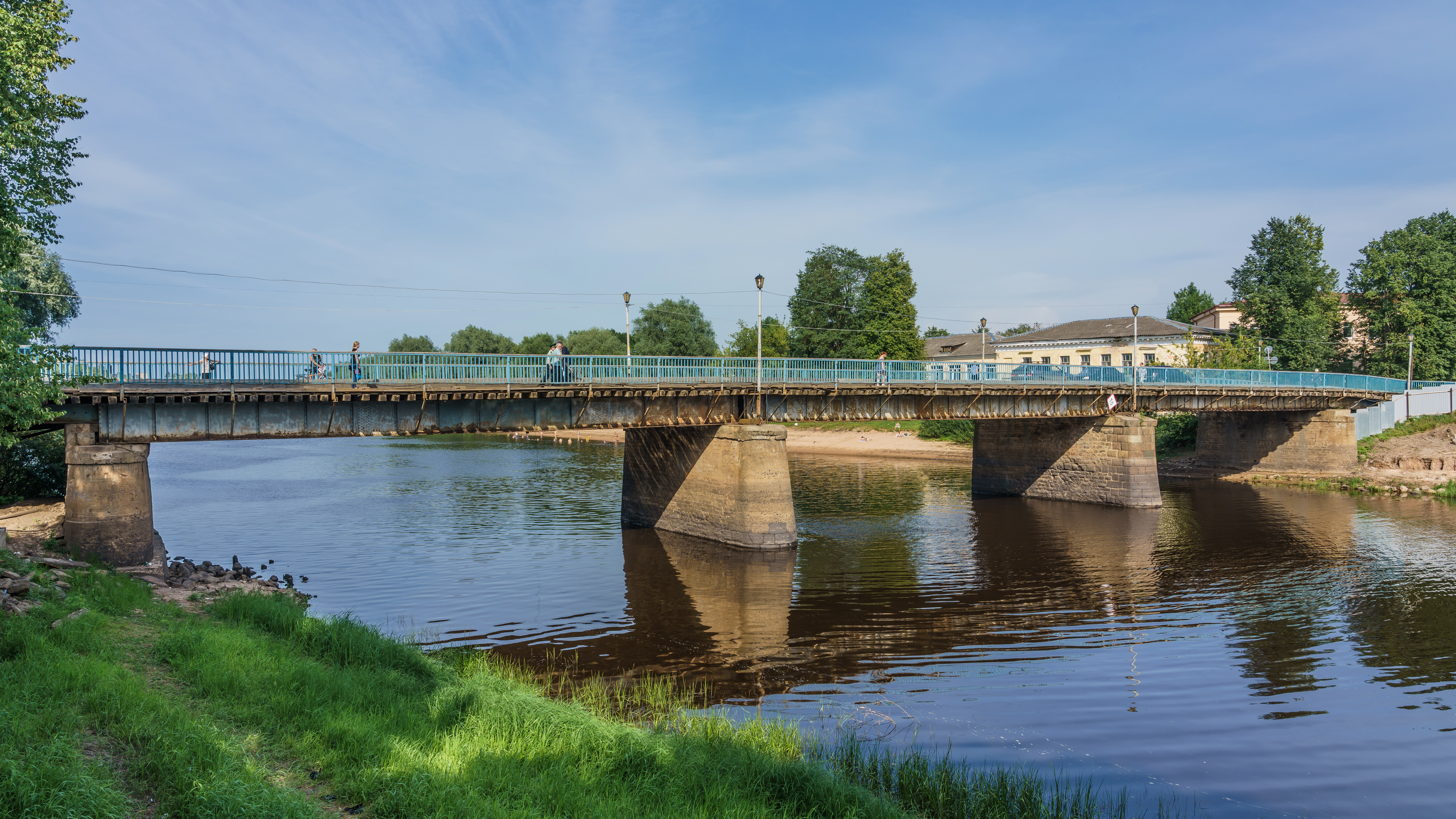 Bridge over Polist River in Staraya Russa, Novgorod Oblast, Russia